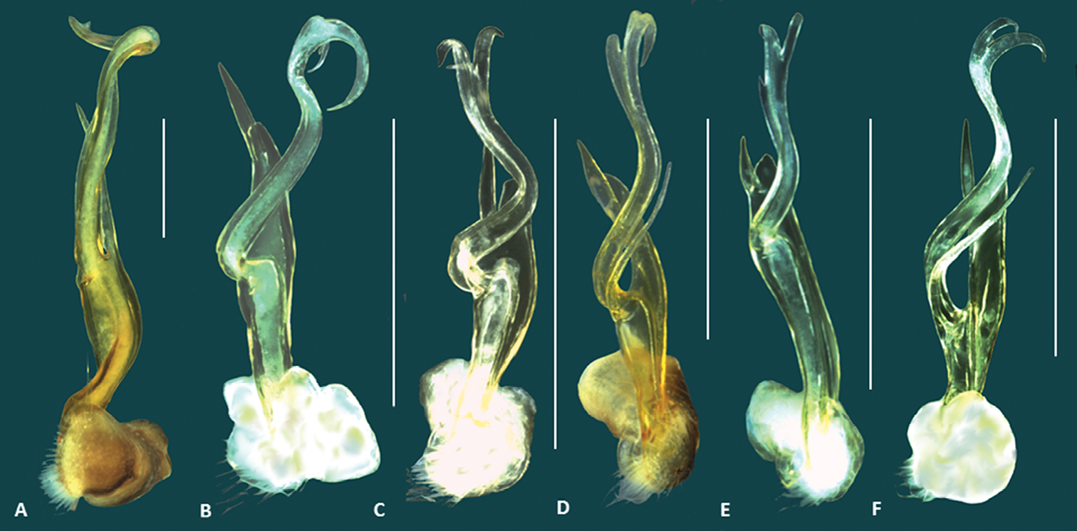 Size comparison of the left gonopod (posterior view), of six Boreohesperus species: A Boreohesperus capensis Shear, 1992 B Boreohesperus curiosus C Boreohesperus delicatus D Boreohesperus dubitalis E Boreohesperus furcosus F Boreohesperus undulatus Scale bars = 0.5 mm.